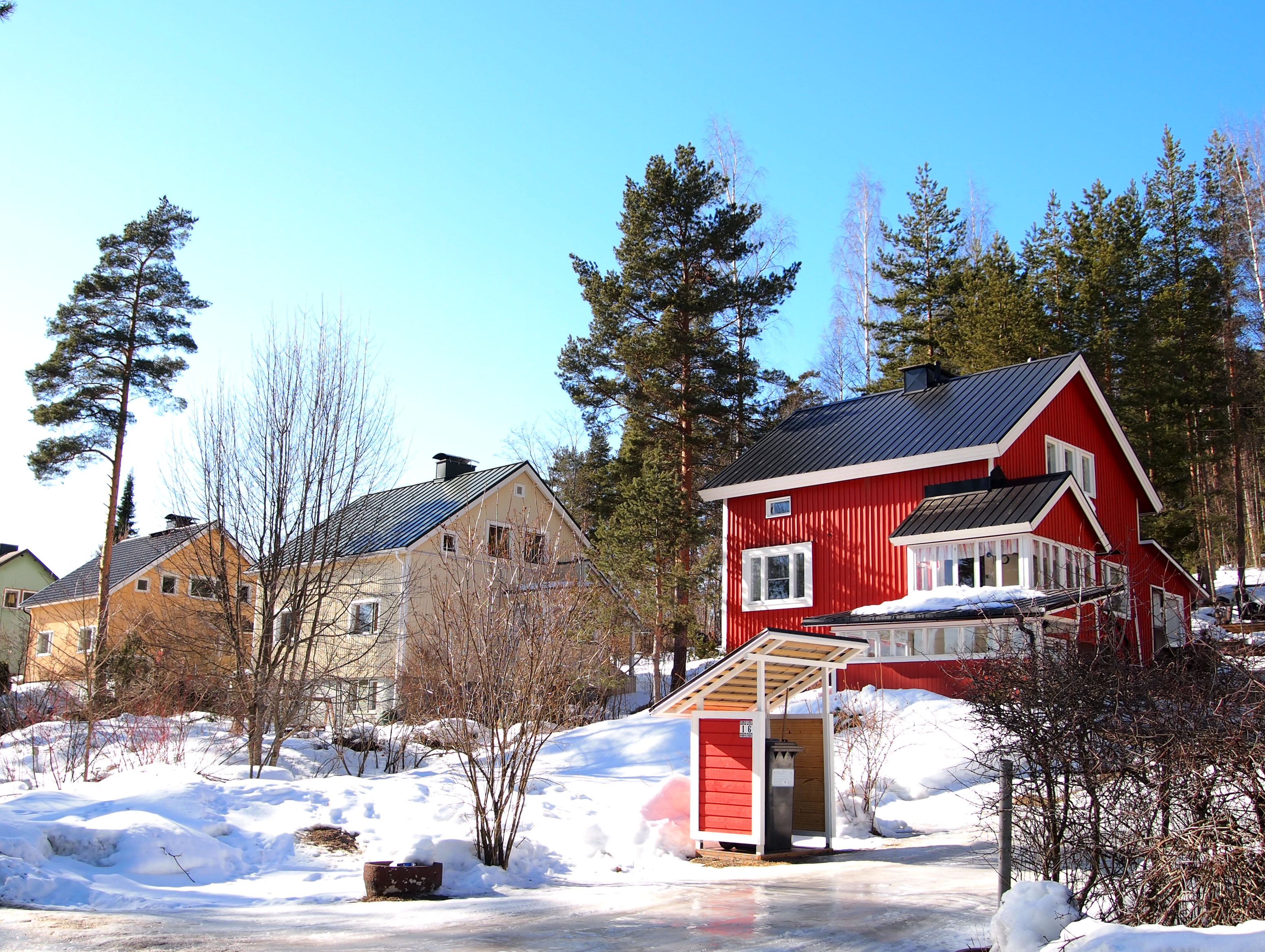 Street Vuorikatu in Kypärämäki district, Jyväskylä.